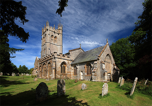 All Saints' parish church, Piddletrenthide, Dorset, seen from the southeast